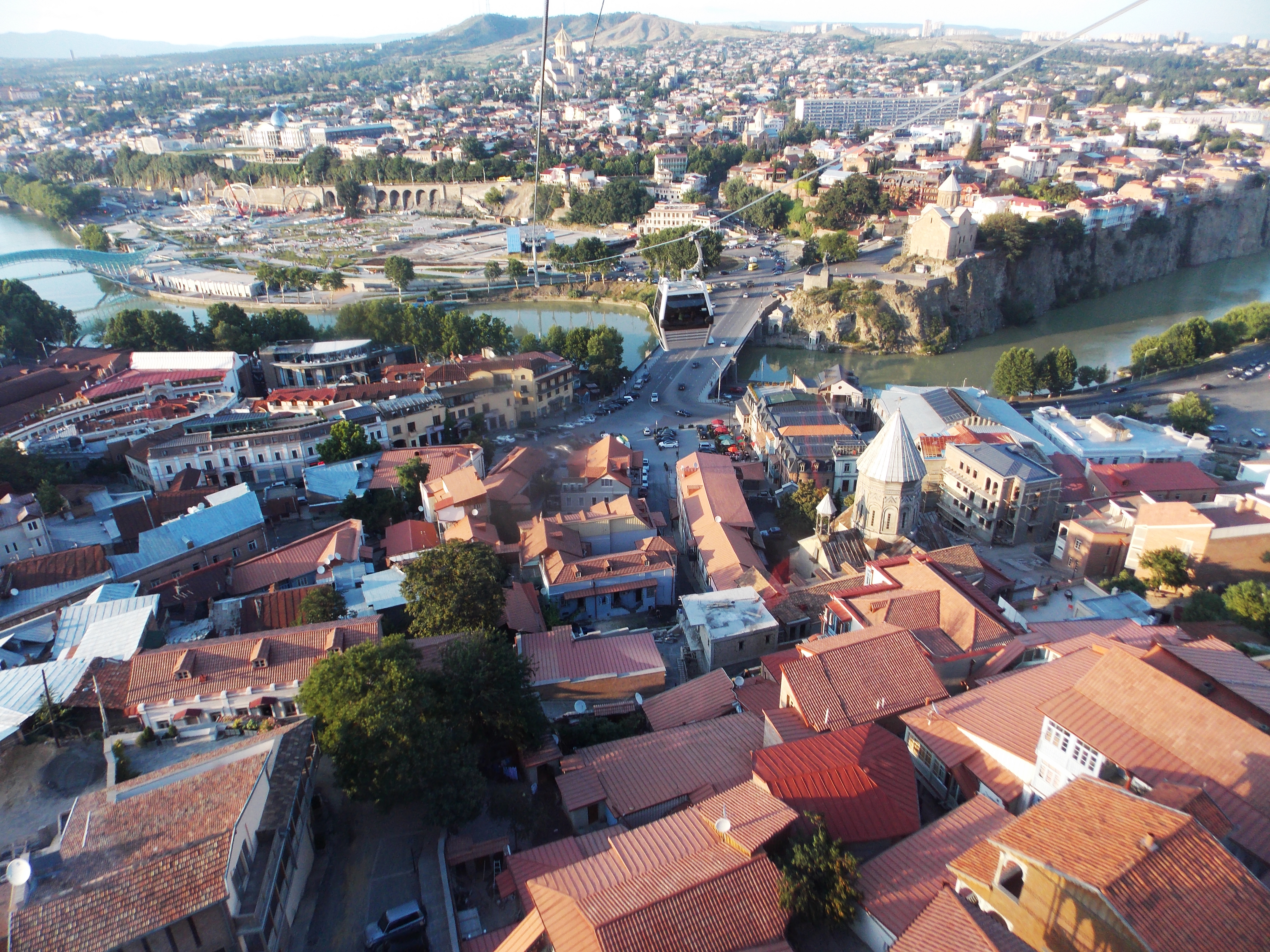 View on Tbilisi from the